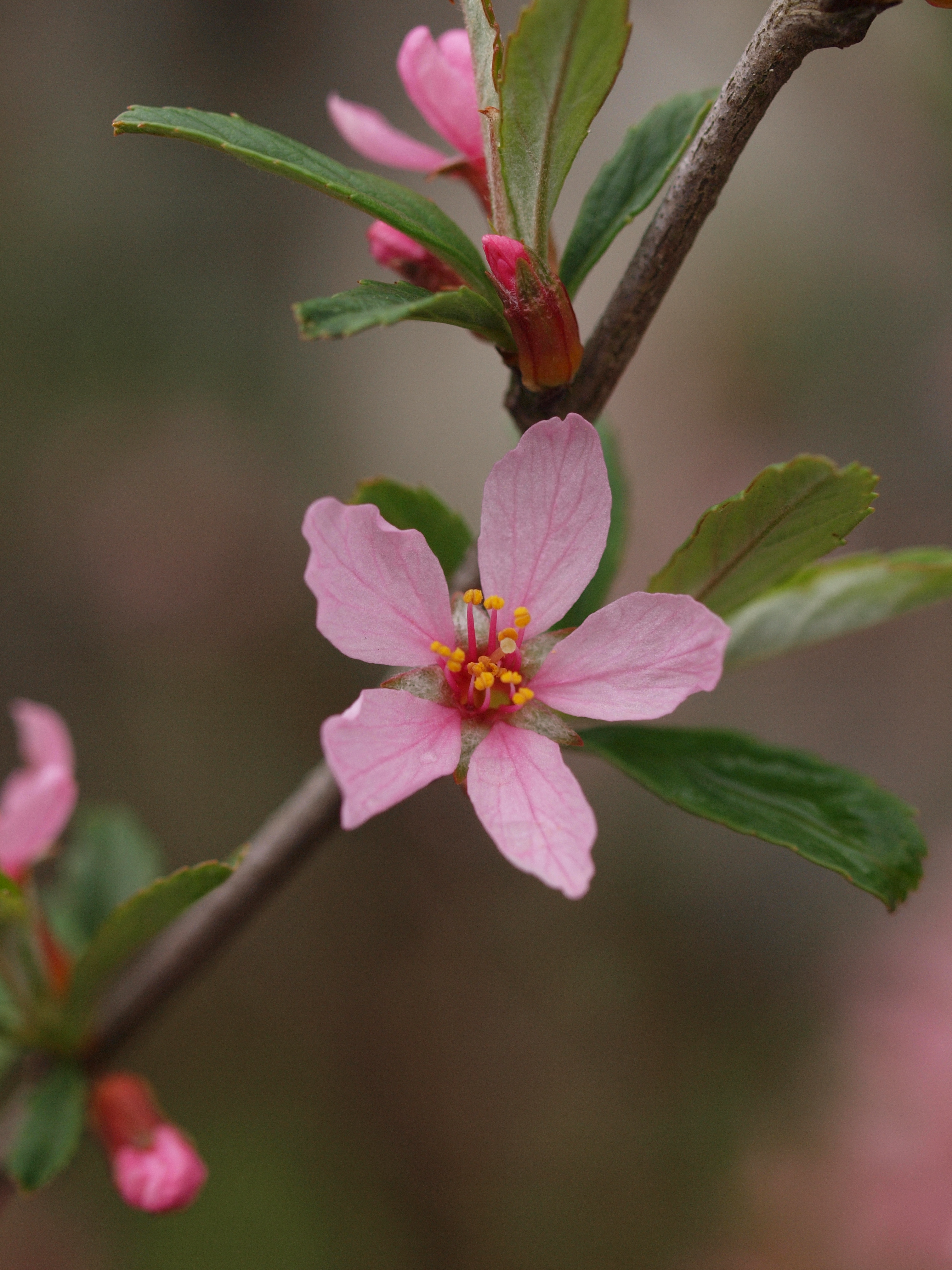 Prunus prostrata flower